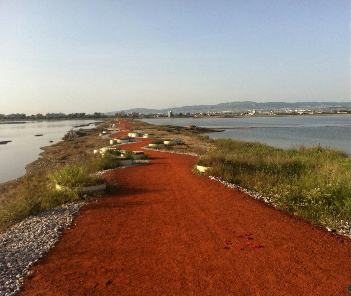 Delta National Park